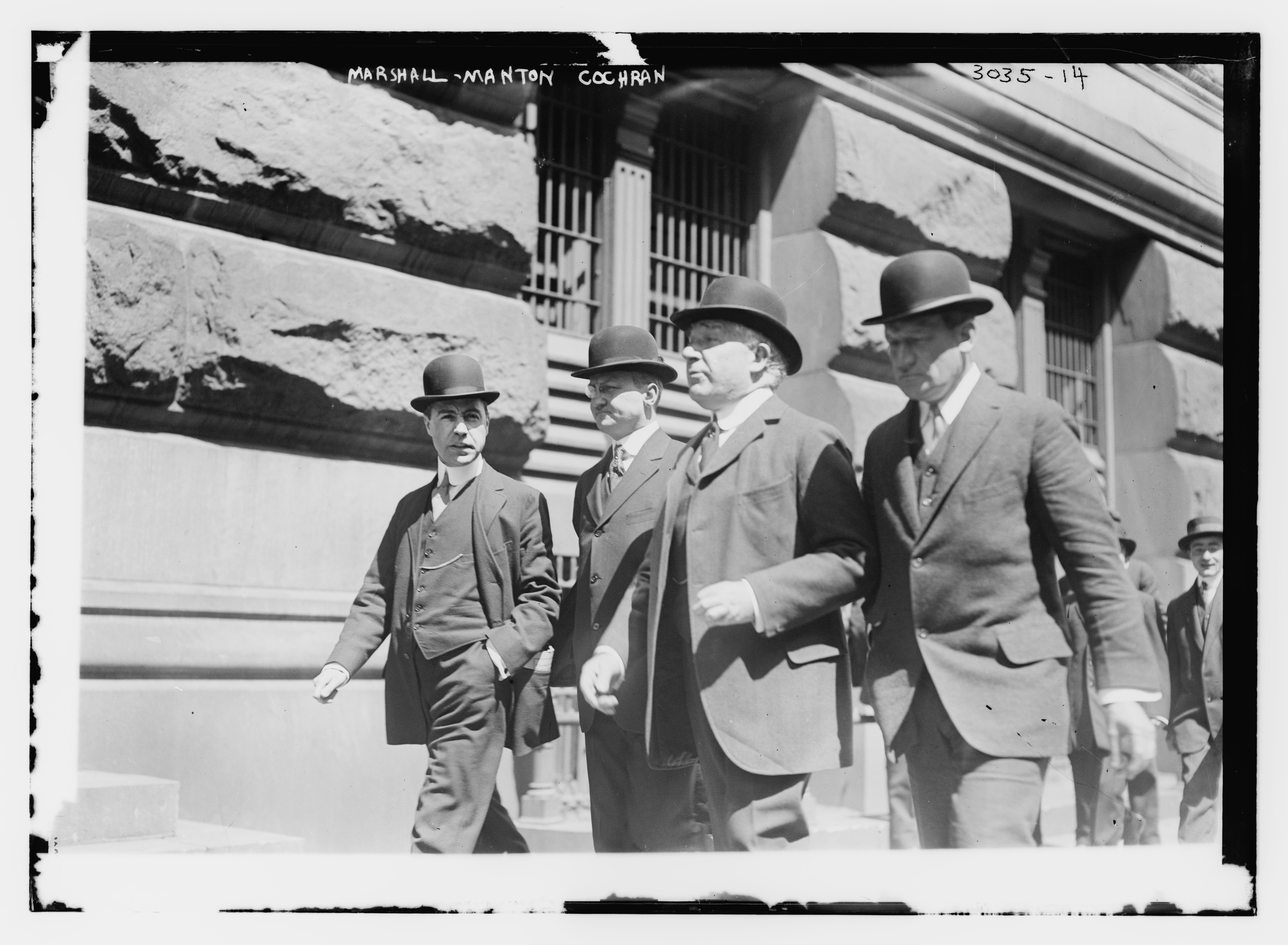 Title: Marshall -- Manton -- Cochran [i.e., Cockran] Abstract/medium: 1 negative : glass ; 5 x 7 in. or smaller.